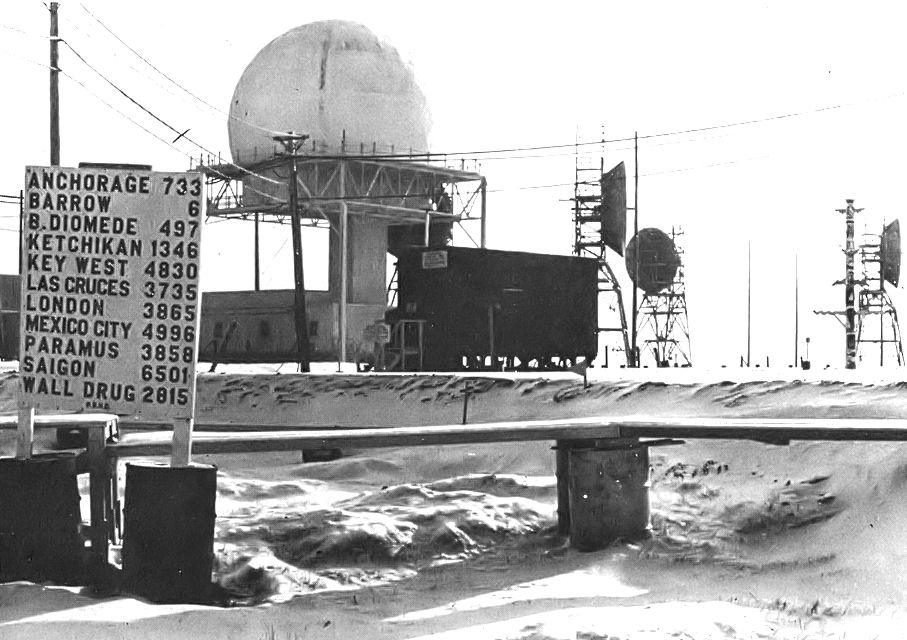 Point Barrow Long Range Radar Site, Alaska